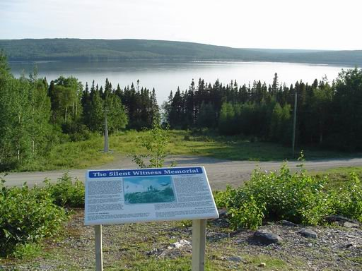 Arrow Air Flight 1285 crash Memorial sign at Gander (New Foundland)